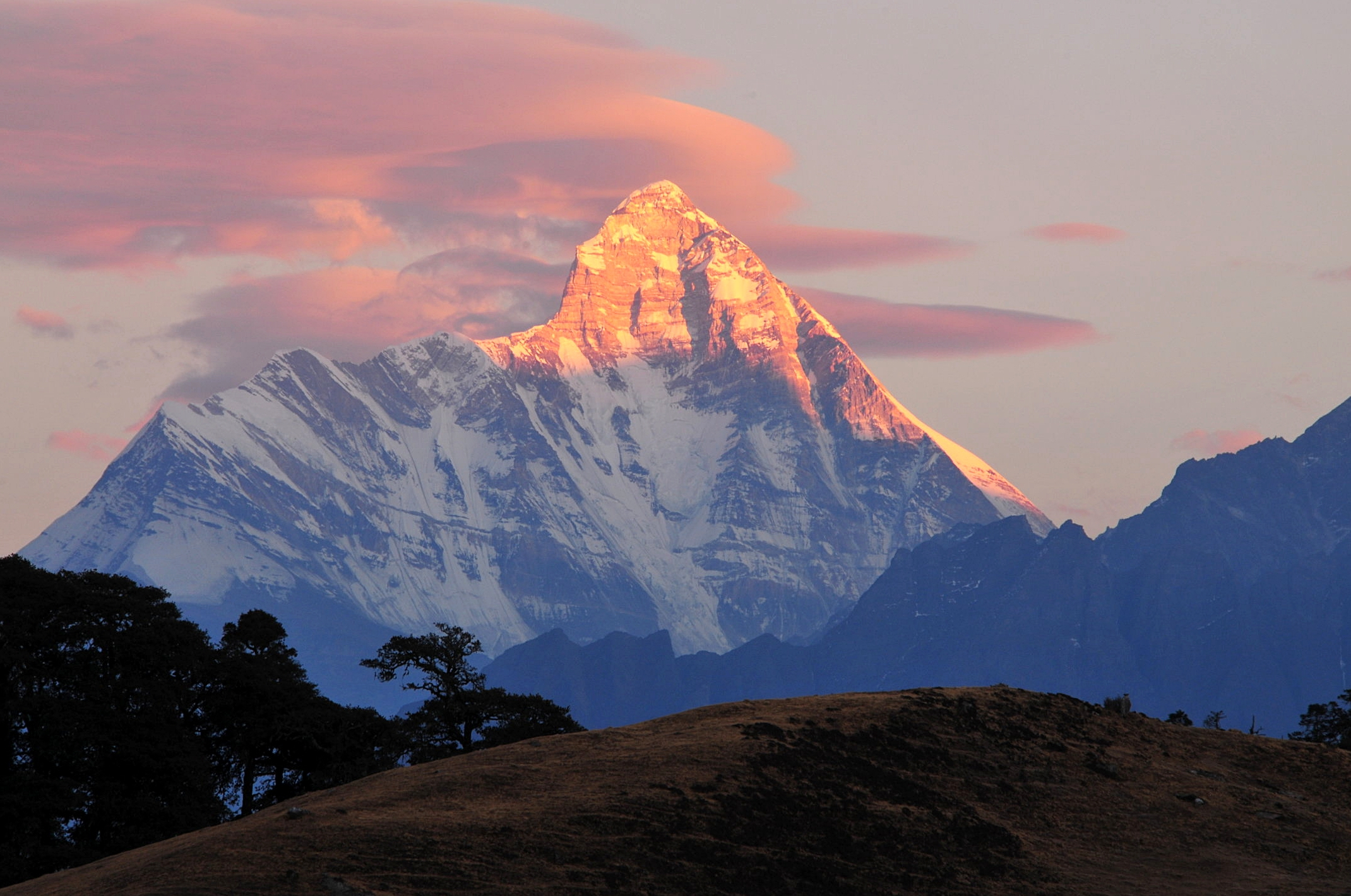 Mt. Nanda Devi at dusk